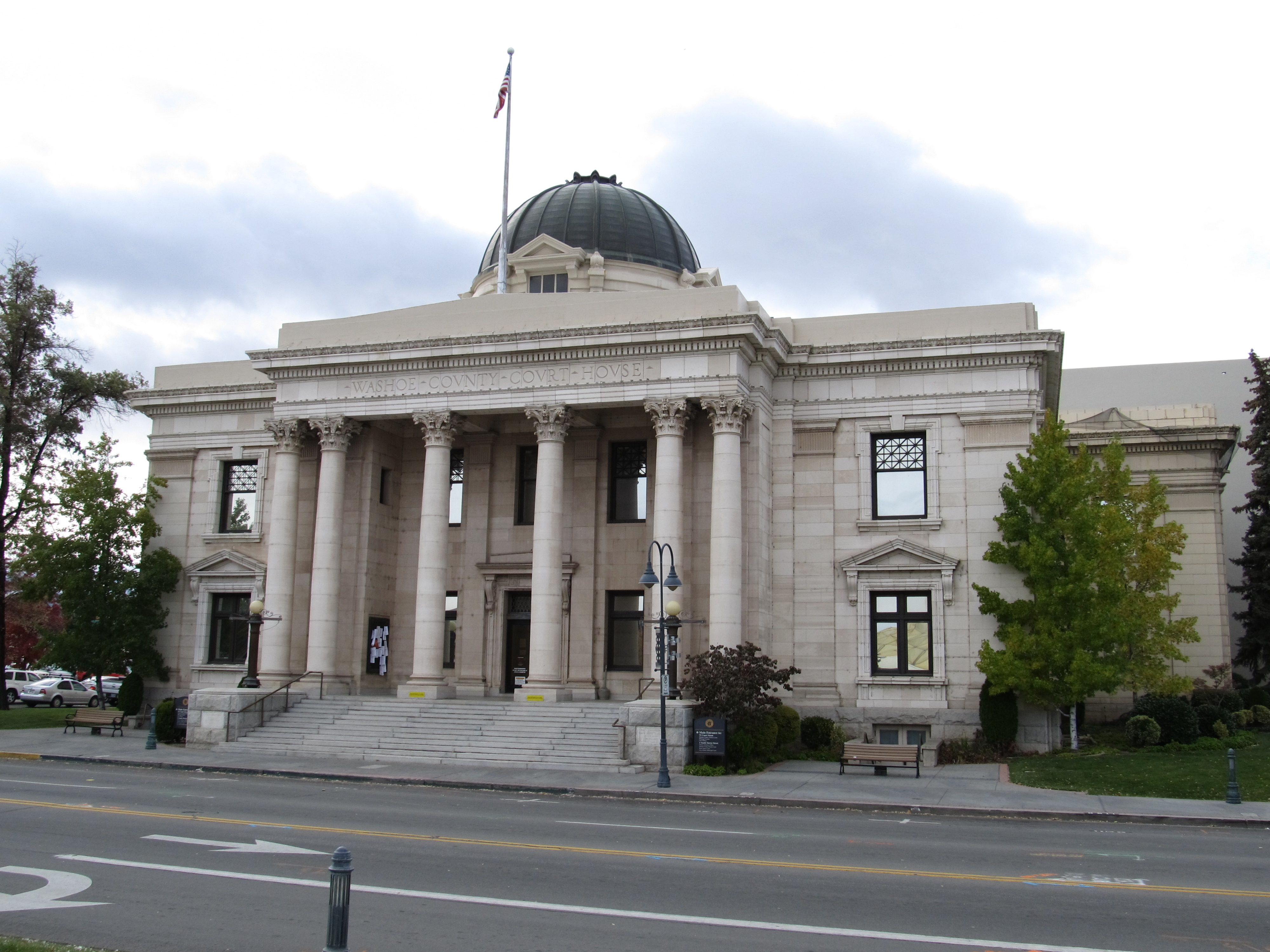 Washoe County is a county located in the U.S. state of Nevada. The population was 421,407 at the 2010 census. Its county seat is Reno. Washoe County includes the Reno-Sparks metropolitan area. Architect Frederic DeLongchamps